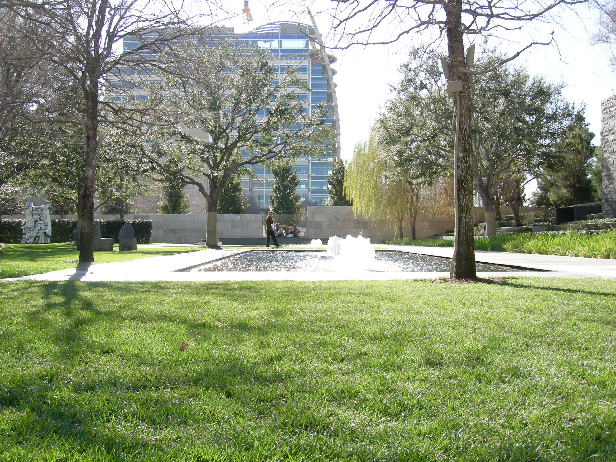 Sculpture garden of the Nasher Museum, Dallas, Texas.